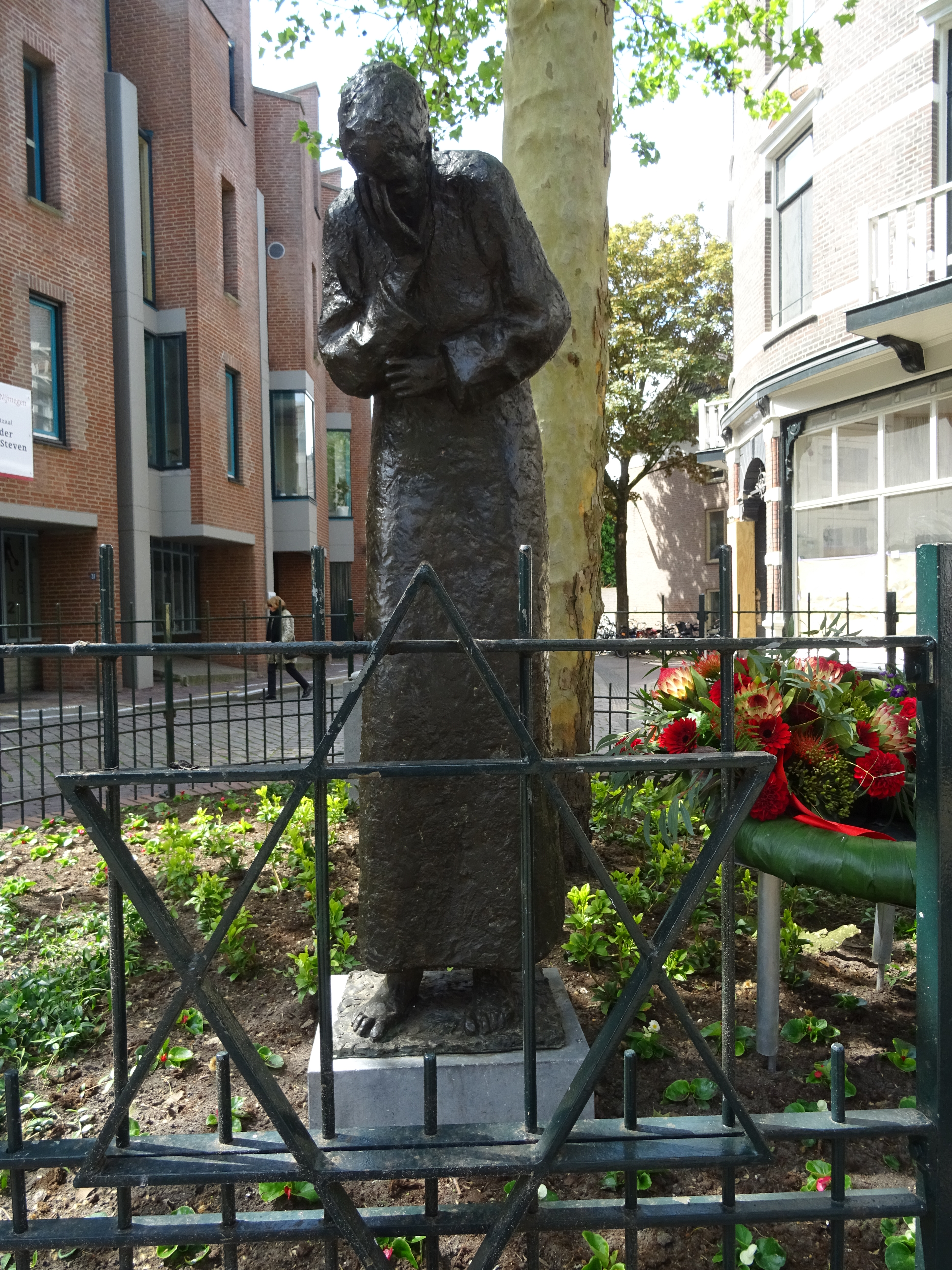 Bronzen beeld van 2 meter hoog gemaakt door Paul de Swaaf. Foto gemaakt op 6 mei 2019.